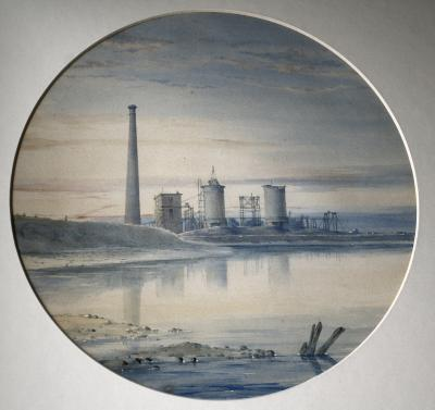 Small circular watercolour by John Bell (1814-1886) of Bell Brothers ironworks under construction at Port Clarence, Teesside, about 1853.